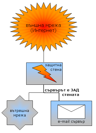 Firewall is located in front of the server (in Bulgarian).